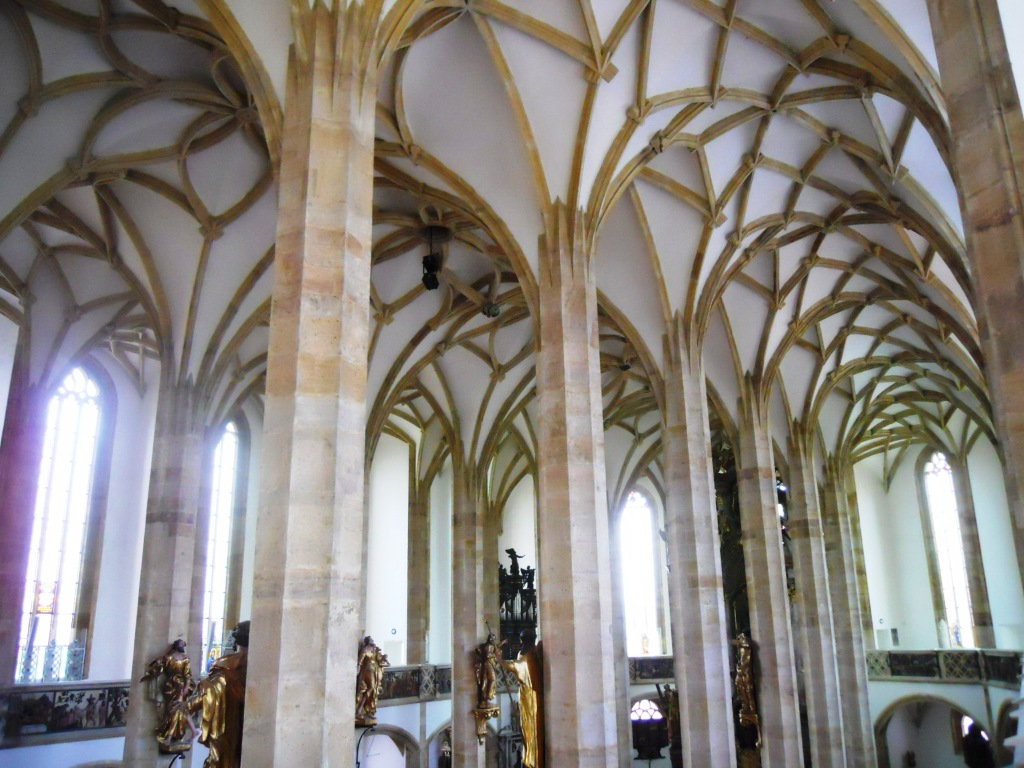 Most (CZ), Assumption church: interior, the vaults